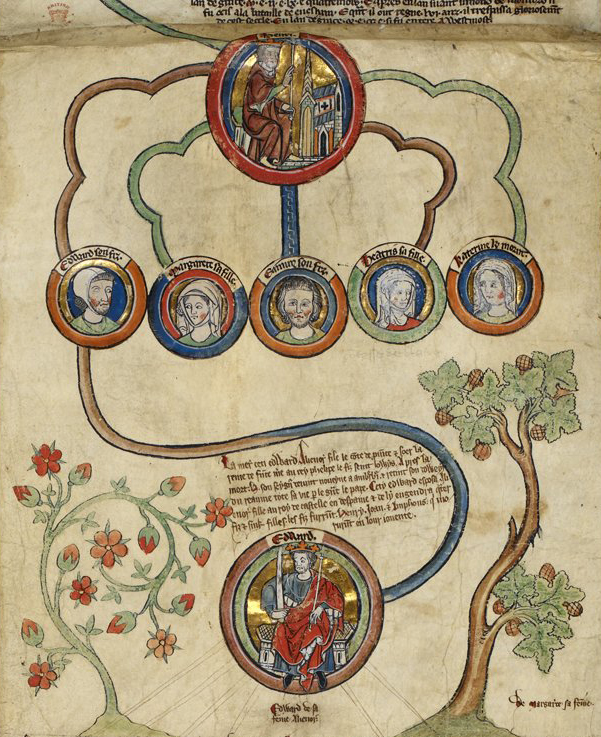 Genealogical roll of the kings of England. 1300-1308. Royal 14 B VI Membrane 7 From Henry III to Edward III. Presented to the British Museum by George II in 1757 as part of the Old Royal Library. Now in British Library.